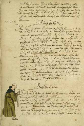 Franciscan monk in a XVIth century Schwäbisch Hall manuscript chronicle